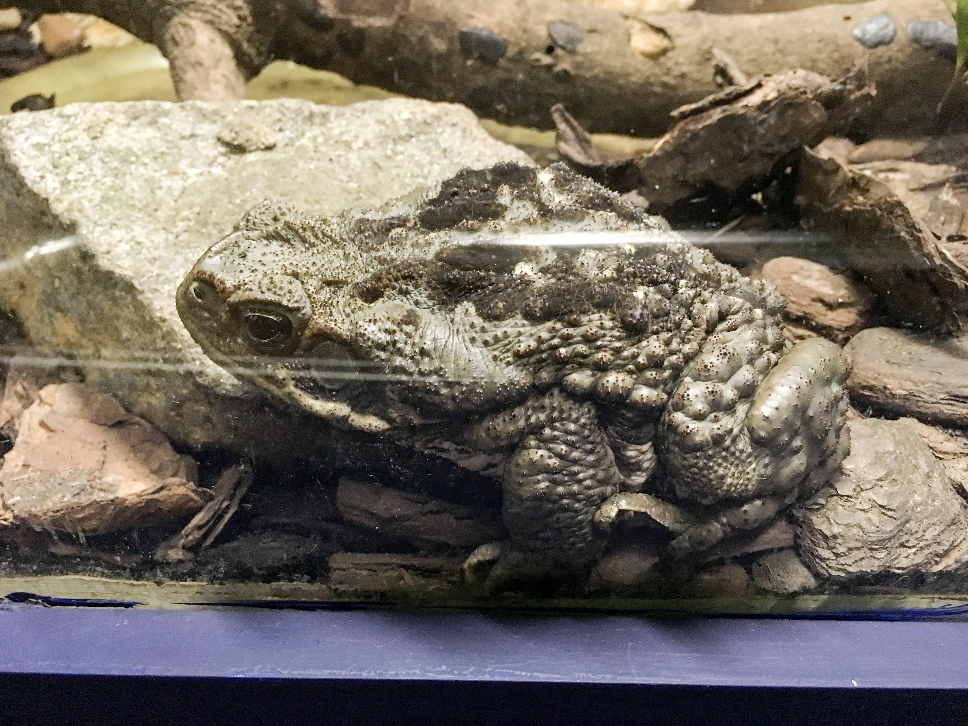 Instituto Butantan, São Paulo, Brazil. Sapo-cururu. "Cururu" toad.